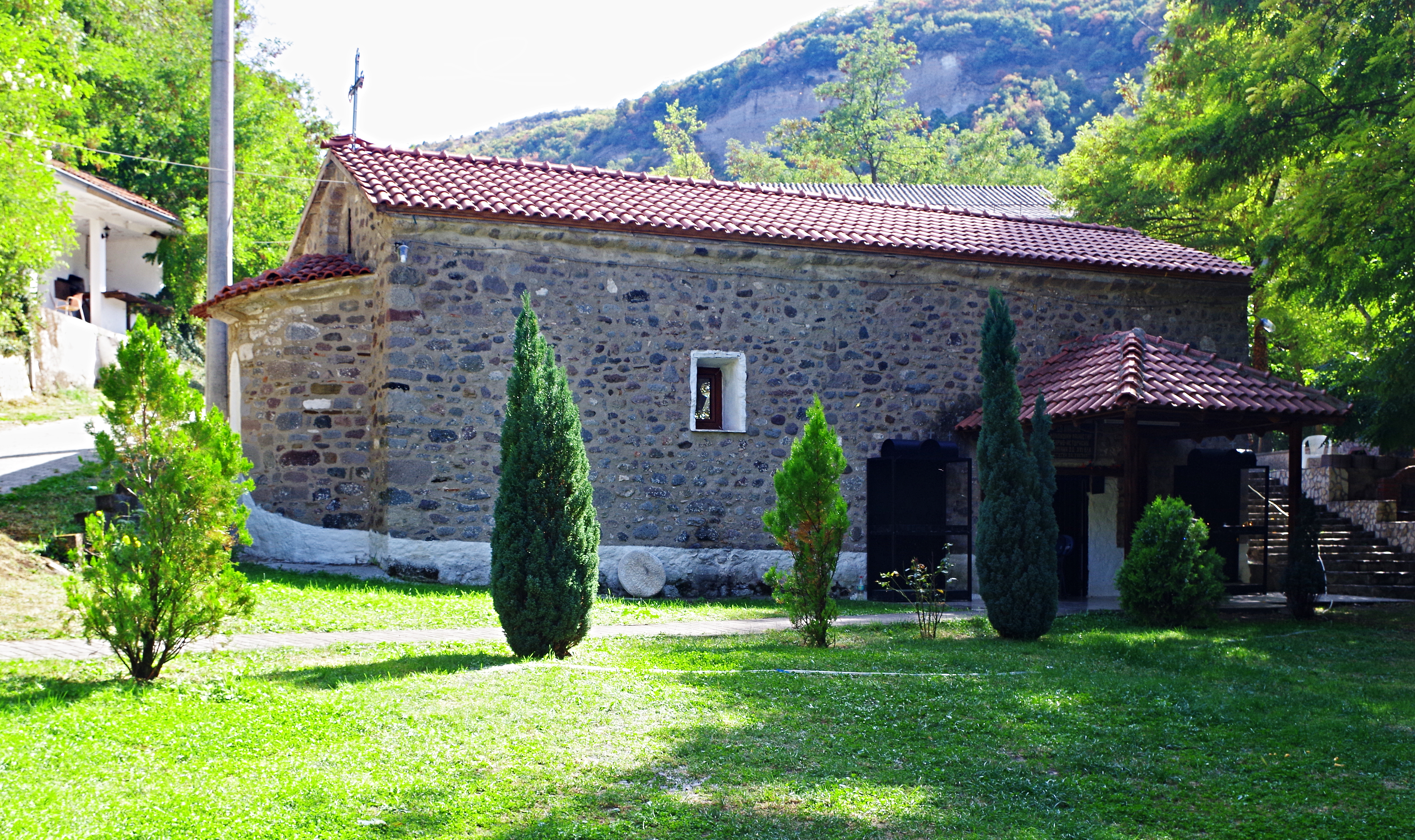 St. Nicholas Church of the Mokliški Monastery